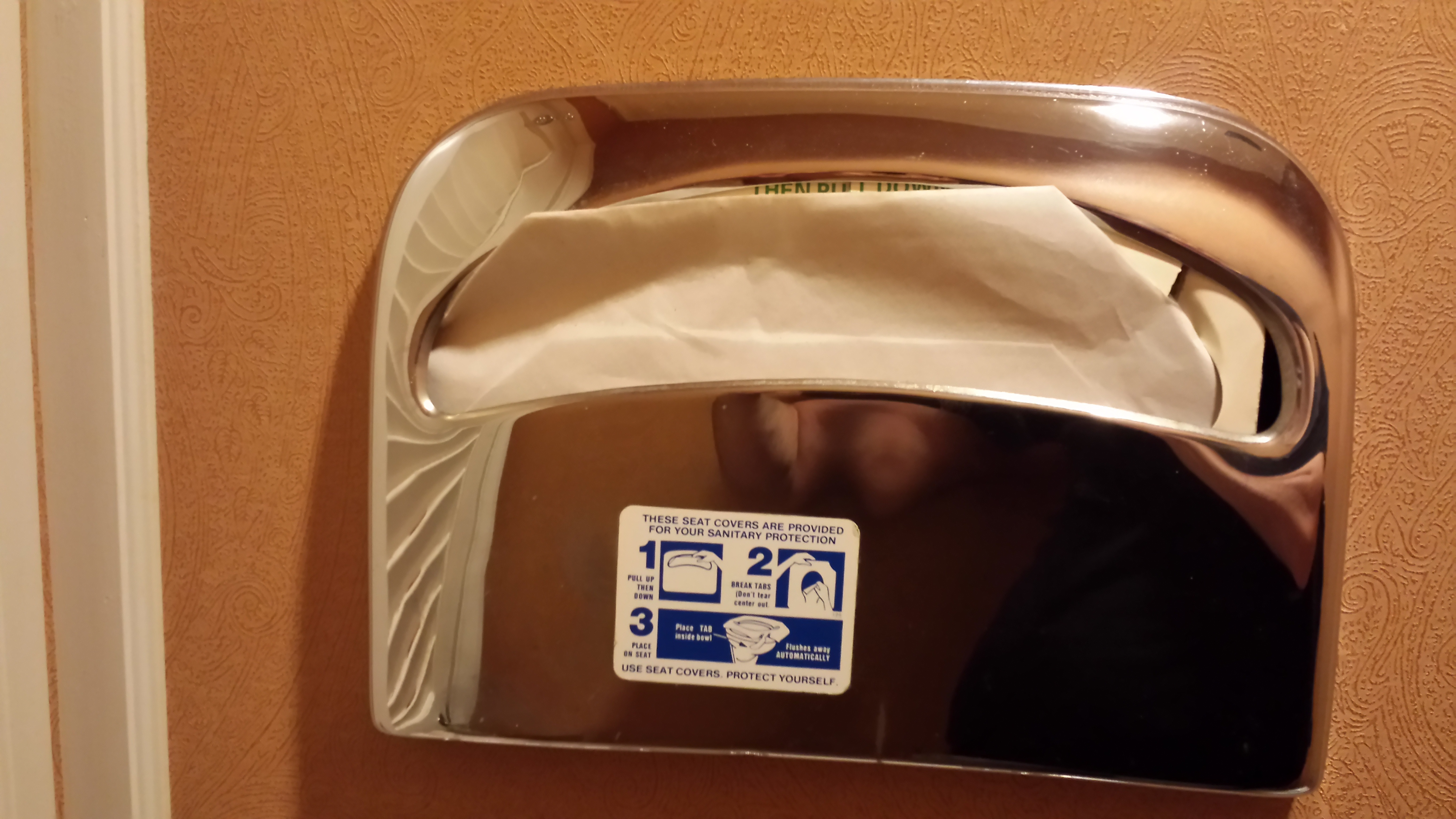 A toilet seat covers dispensers and instructions on a bus in North America.